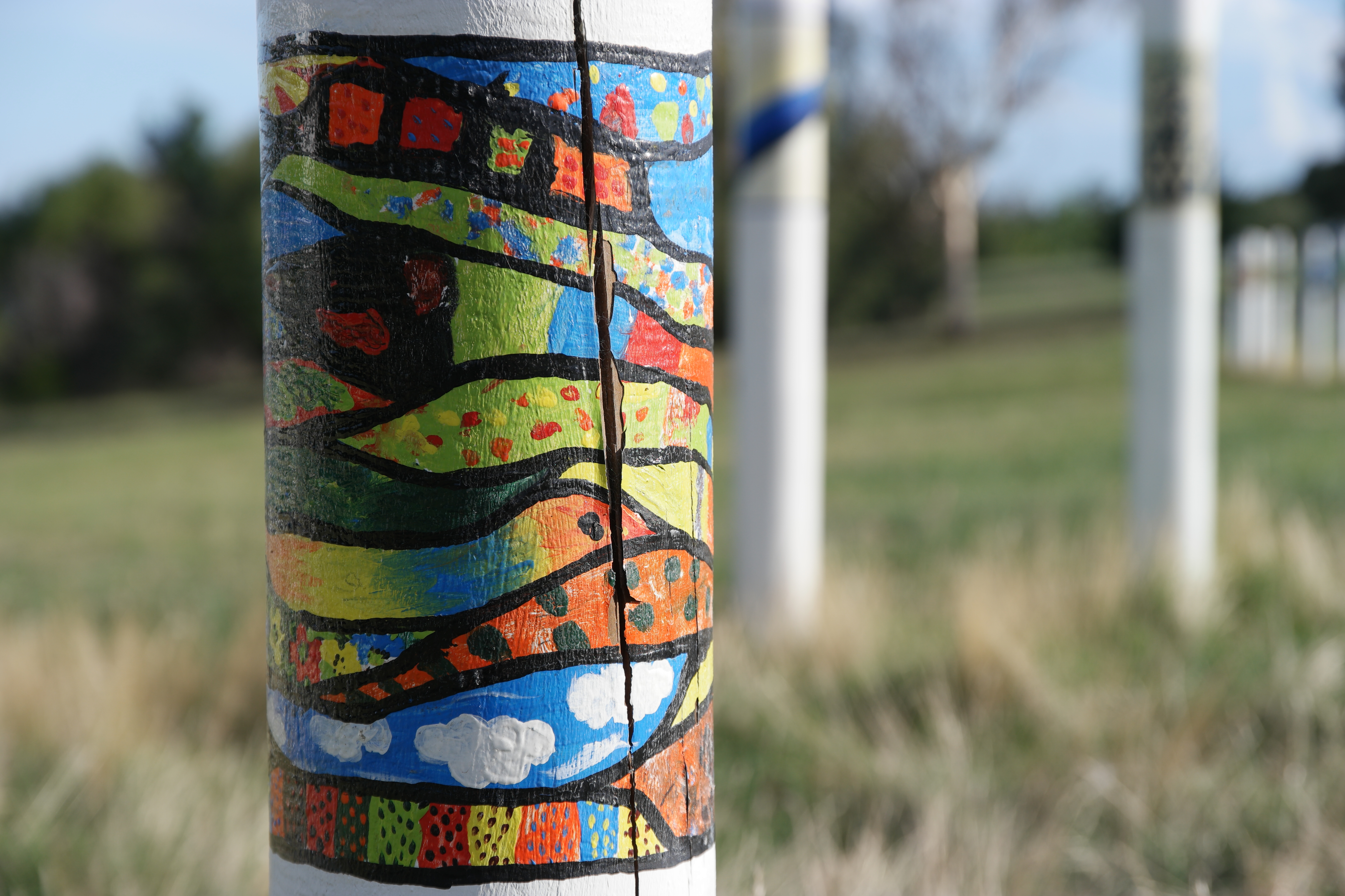 SIEV X Memorial at Kurrajong Point, Yarralumla Peninsula, Weston Park, Canberra.